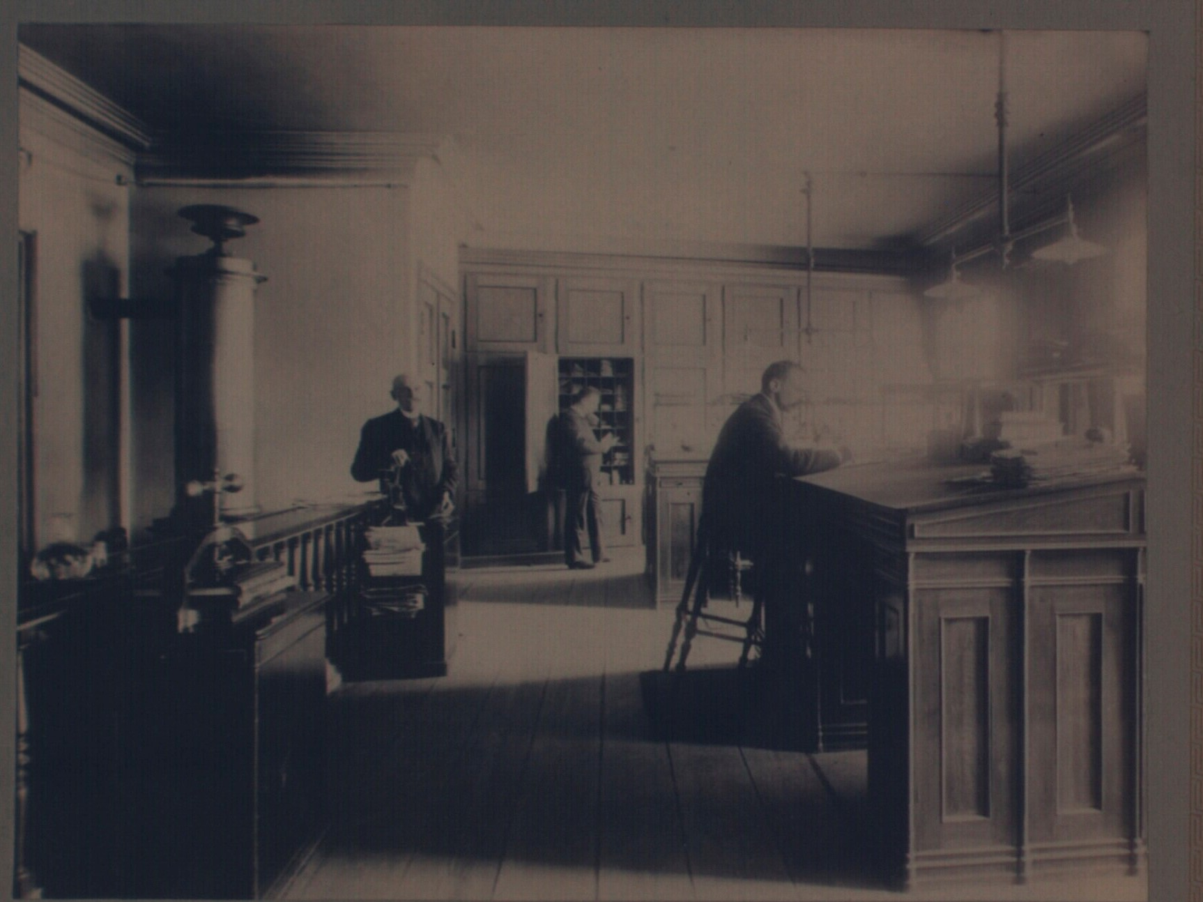 Suhr's office at Gammeltorv 22 in Copenhagen, Denmark